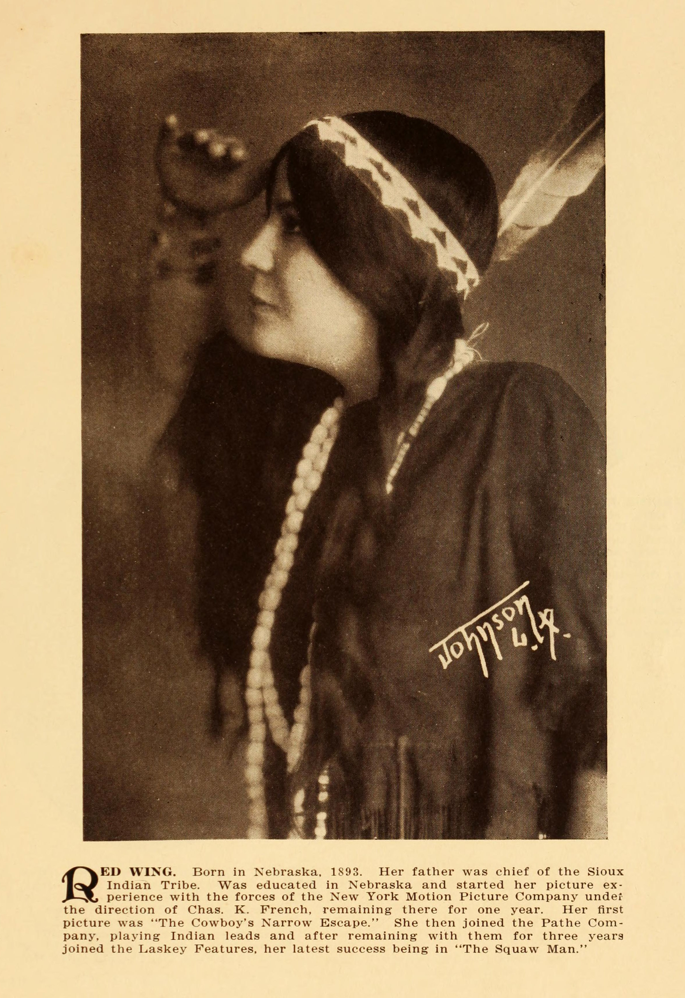 Photograph published in Who's who in the film world